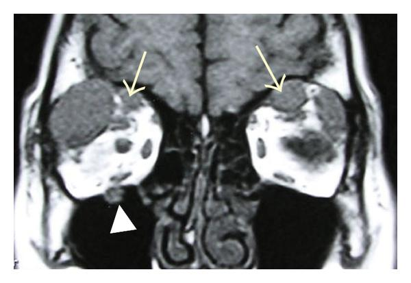 IgG4-related orbital inflammatory lesions: Bilateral supraorbital nerve enlargements (arrows) and right infraorbital nerve enlargement were observed in a 47-year-old woman with a serum IgG4 of 1000 mg/dL. (T1-weighted magnetic resonance image)